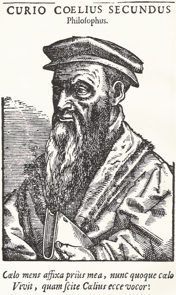 Curio Coelius Secundus Philosophus